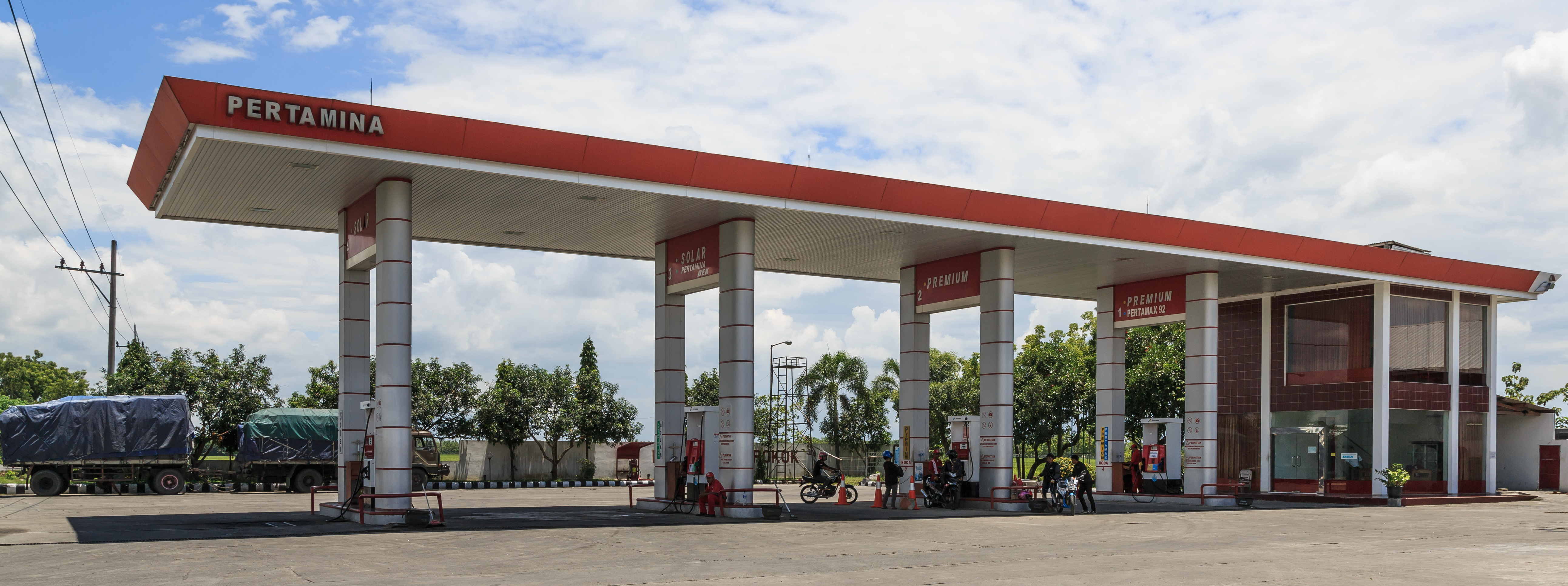 Sukoharjo Regency, Indonesia: A Pertamina fuel station.